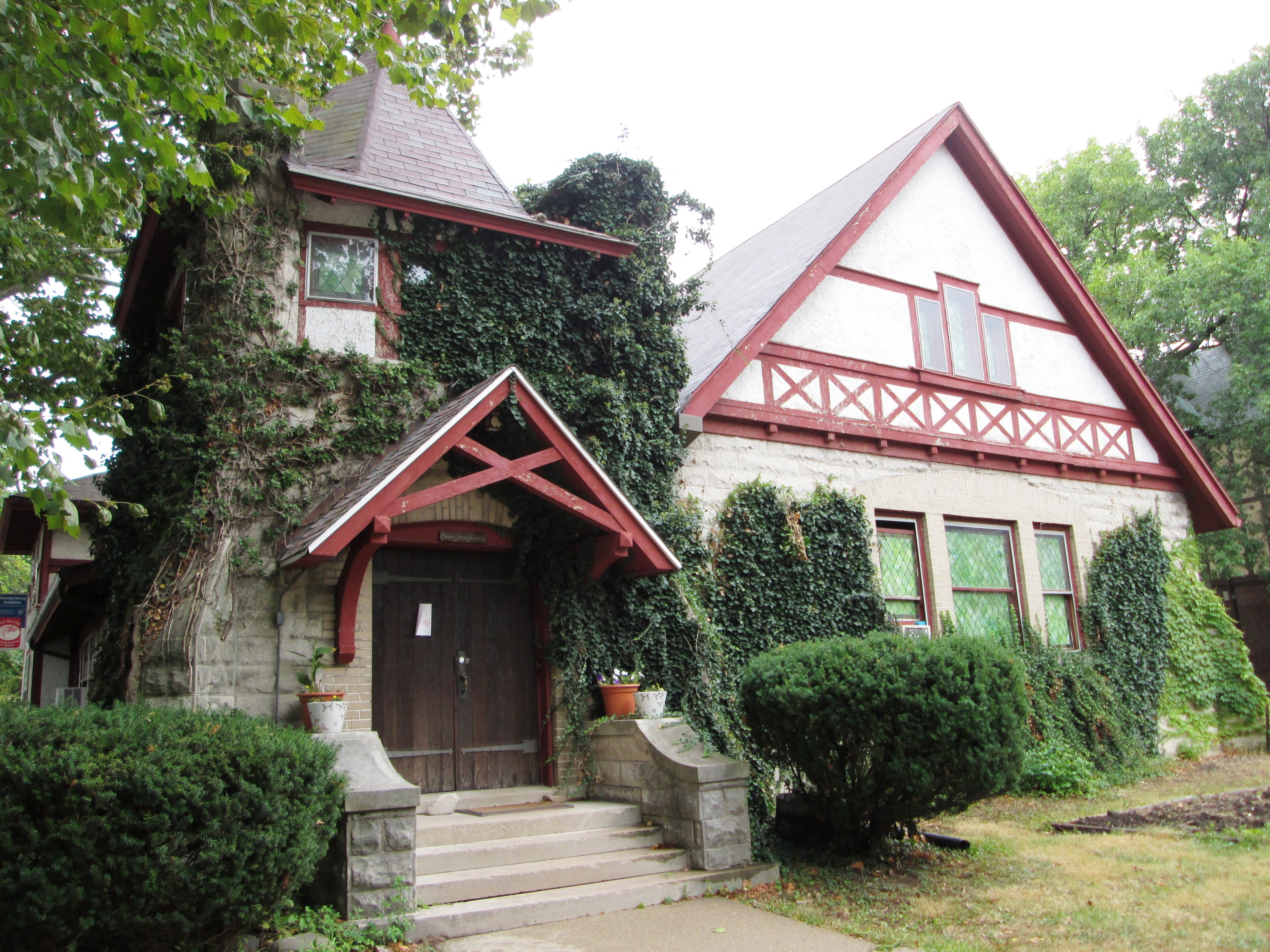 The Channing-Murray Foundation at 1209 West Oregon Street in Urbana, Illinois is the Unitarian-Universalist Campus Center at the University of Illinois at Urbana-Champaign. It includes a chapel and a vegetarian restaurant, "The Red Herring". The Foundation was established in 1954 as a merger of the Murray Club (Universalist, founded 1900) and the Young People's Club or Unity Club (Unitarian, c.1907). The building was constructed in 1908 as the Unitarian Chapel. (Source: [1])